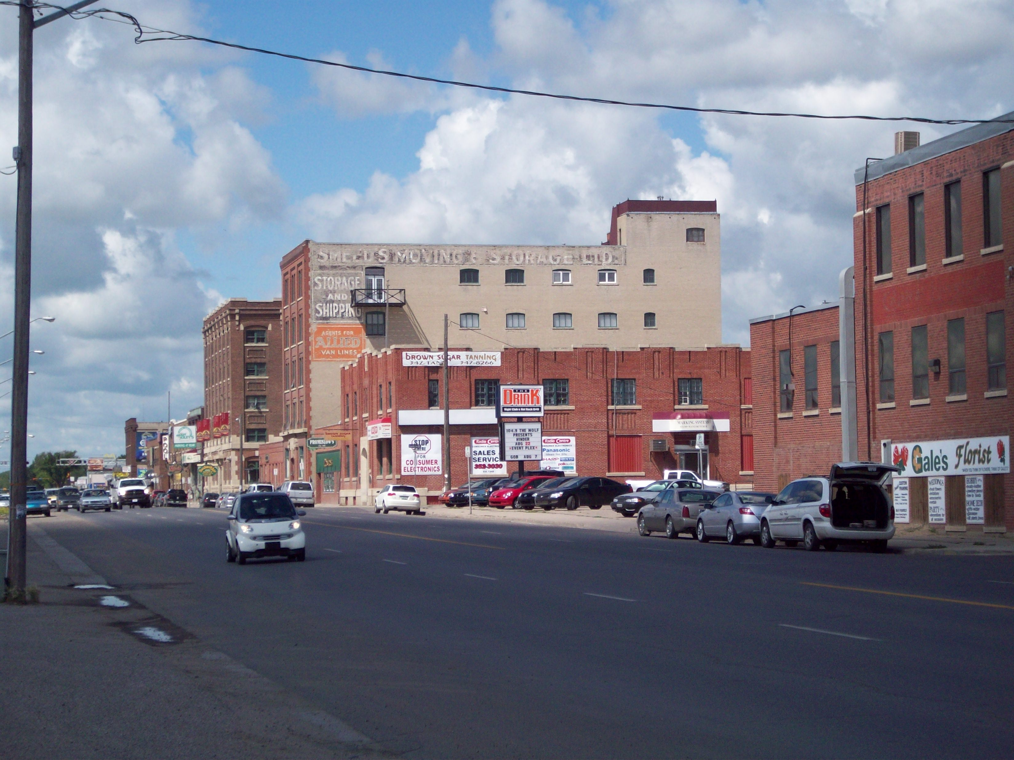 Warehouse District, 2008 Removed from the following pages: Regina's historic buildings and precincts Regina --OrphanBot (talk) 07:11, 30 July 2008 (UTC)